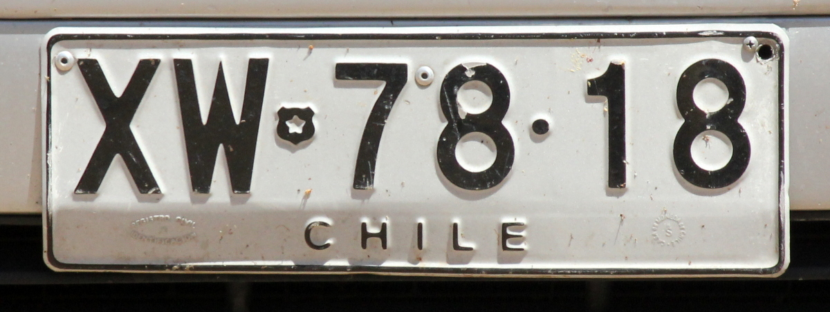 Chilean registration plate in format 2: particular